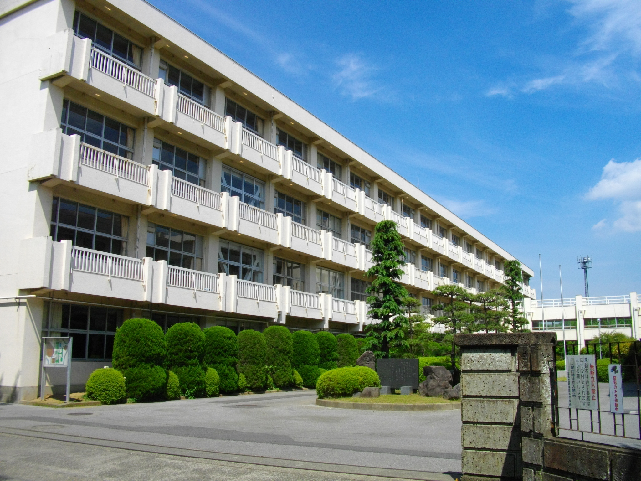 Kimitsu High School